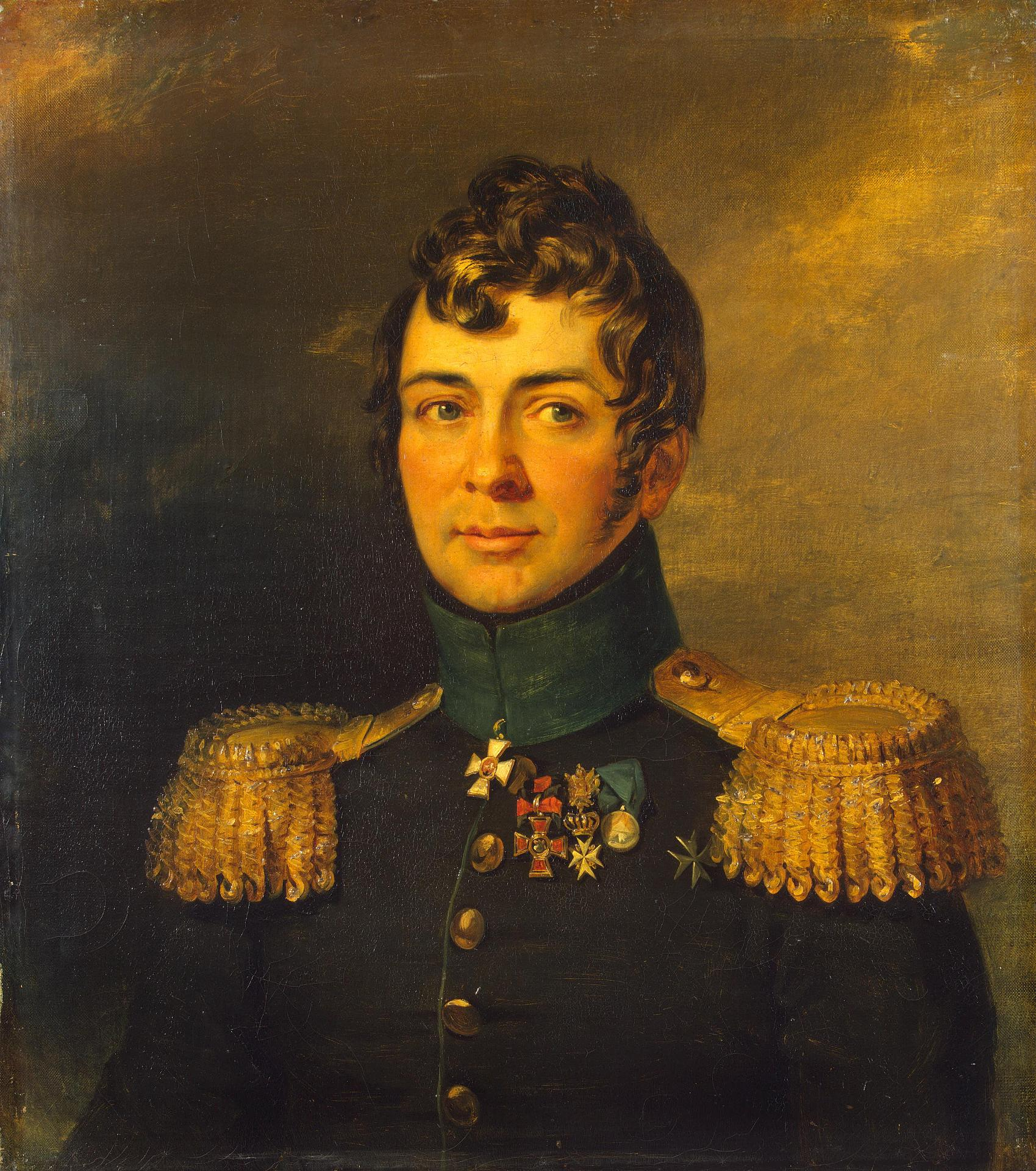 Ushakov, Sergey Nikolaevich 2-nd (1776 – 23.02.1814) russian general.